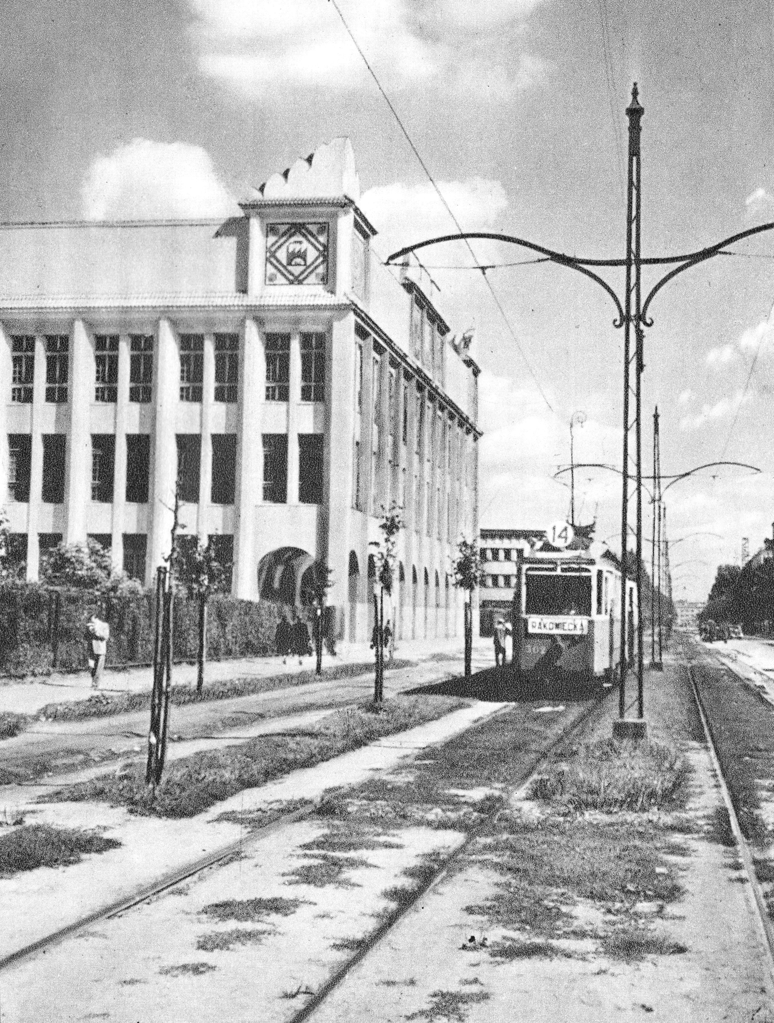 Rakowiecka Street after 1945